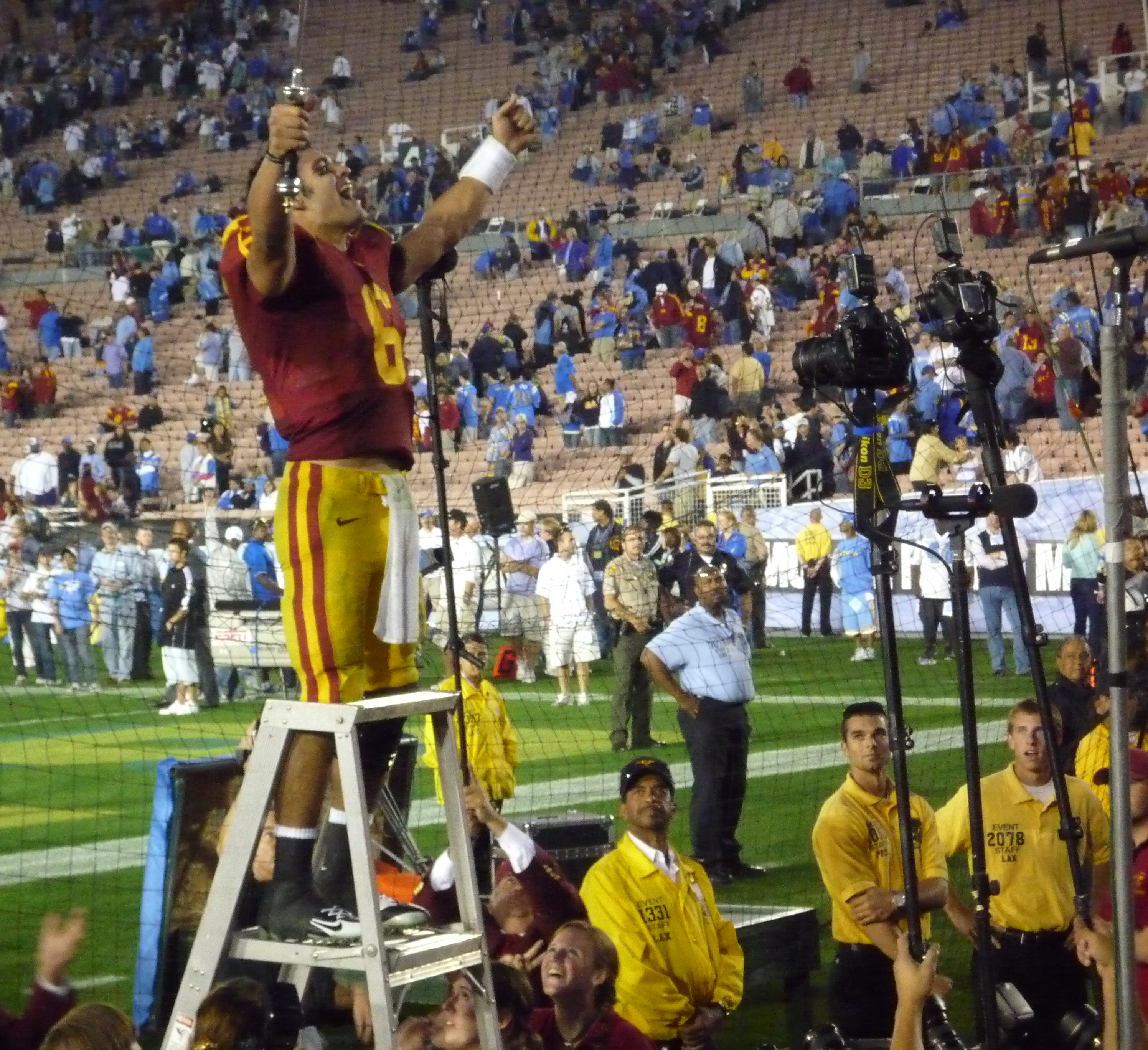 Quarterback Mark Sanchez salutes USC fans and conducts the Spirit of Troy marching band (holding the drum major's sword) after a victory over rival UCLA rivalry in what would be his final regular season game with the Trojans.